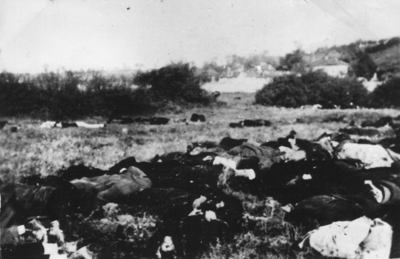 Corpses in Kragujevac 1941